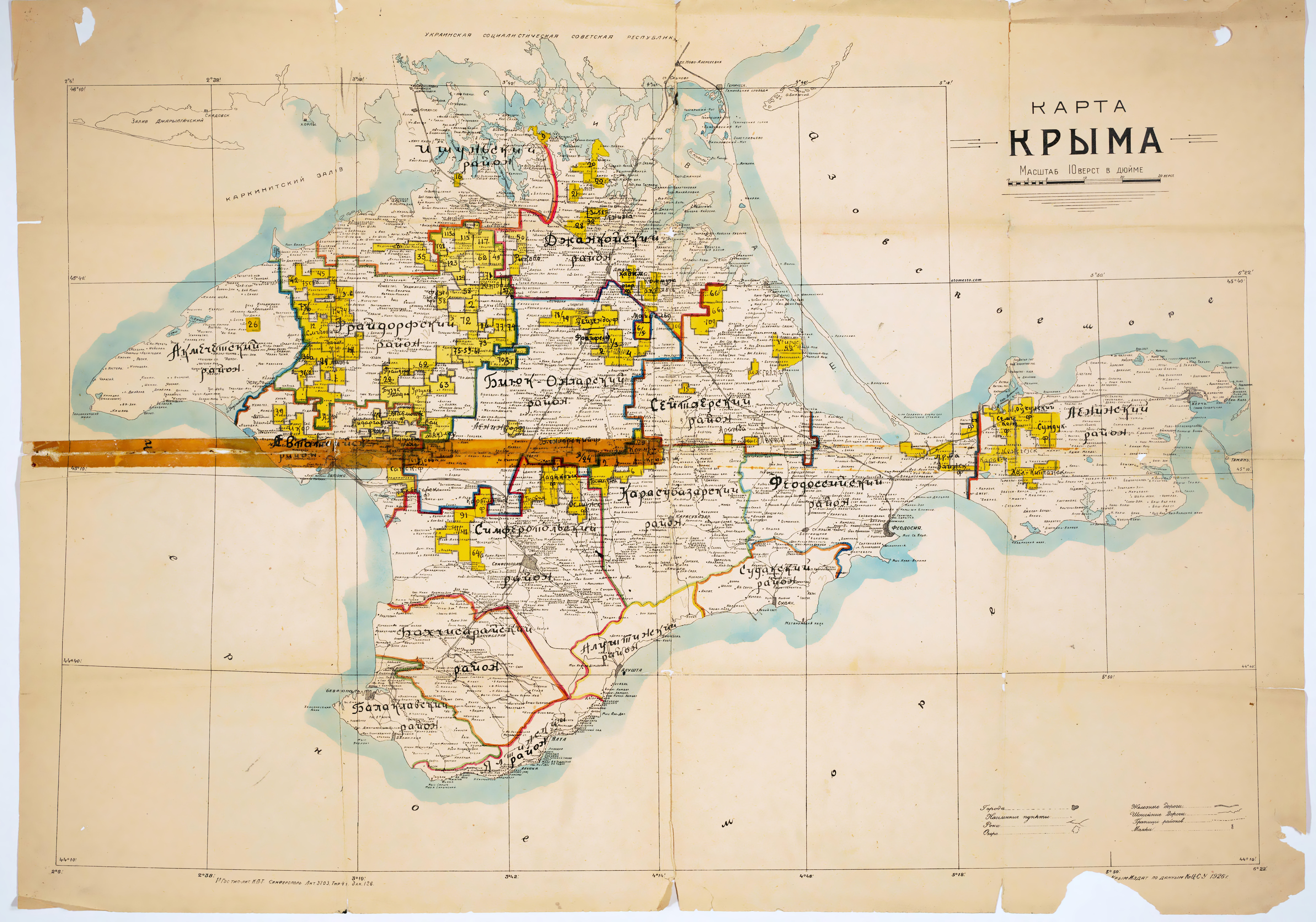 Map of the Crimean Statistical Office 1926